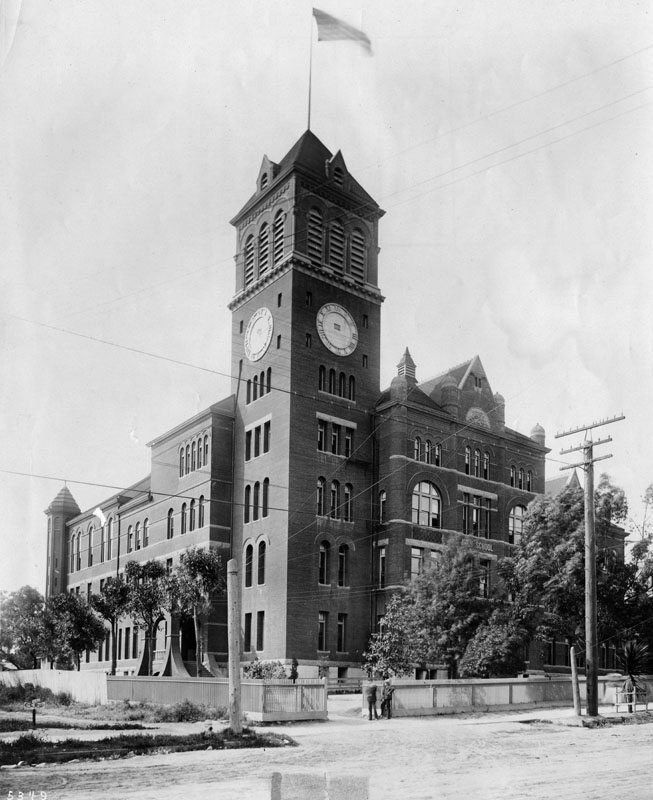 Los Angeles High School on Fort Moore Hill, site of the old Fort Moore, in 1908; it would move 10 years later.